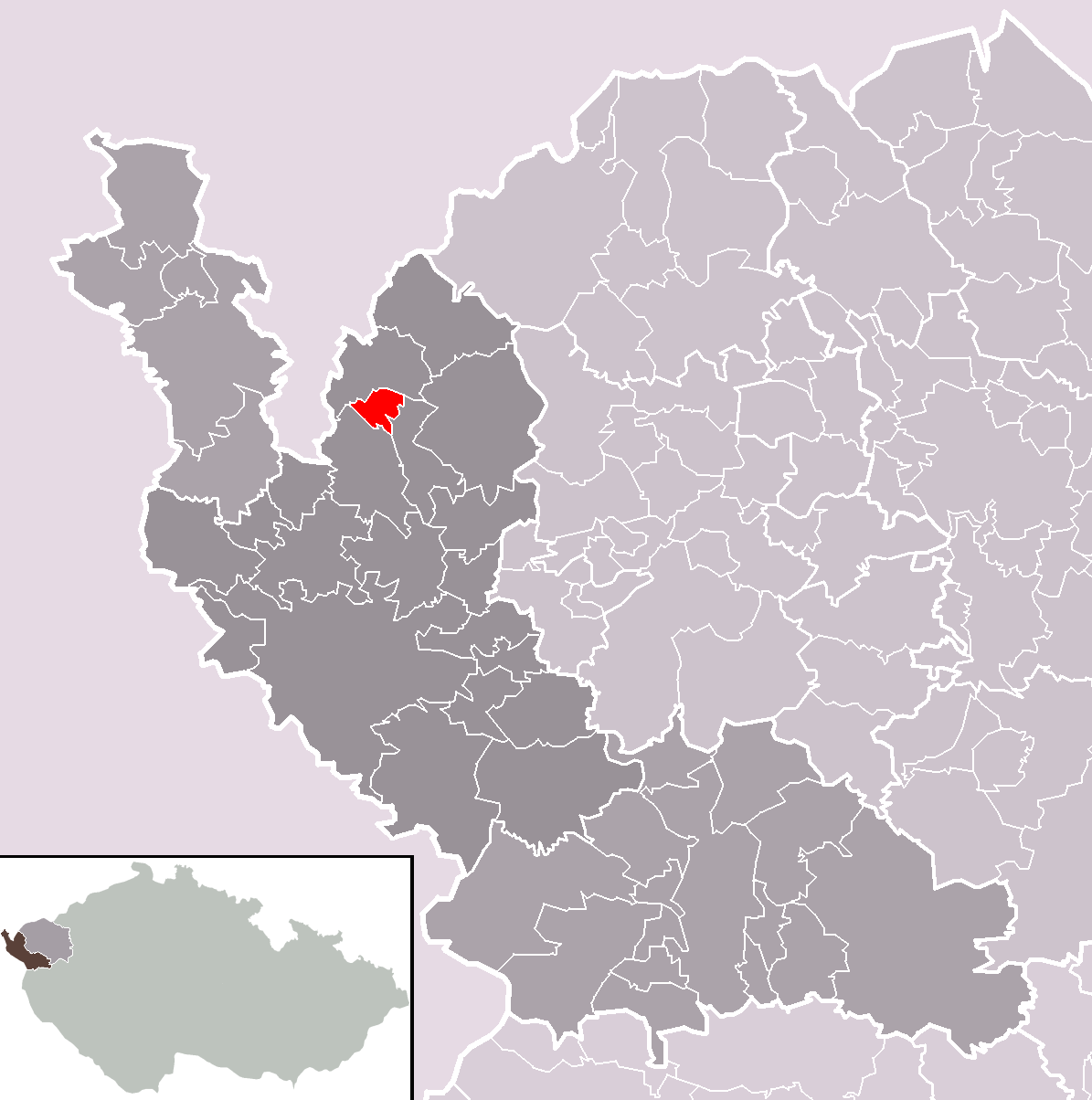 Location of Velký Luh municipality within Cheb District and administrative area of Cheb as a Municipality with Extended Competence.